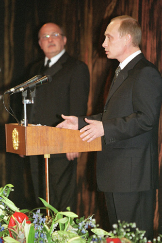 THE BOLSHOI THEATRE, MOSCOW. President Putin addressing an official function to celebrate the 225th anniversary of the State Academic Bolshoi Theatre.